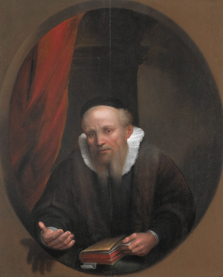 Jan Cornelis Sylvius (1564-1638) oil on panel 43 x 35.4 cm